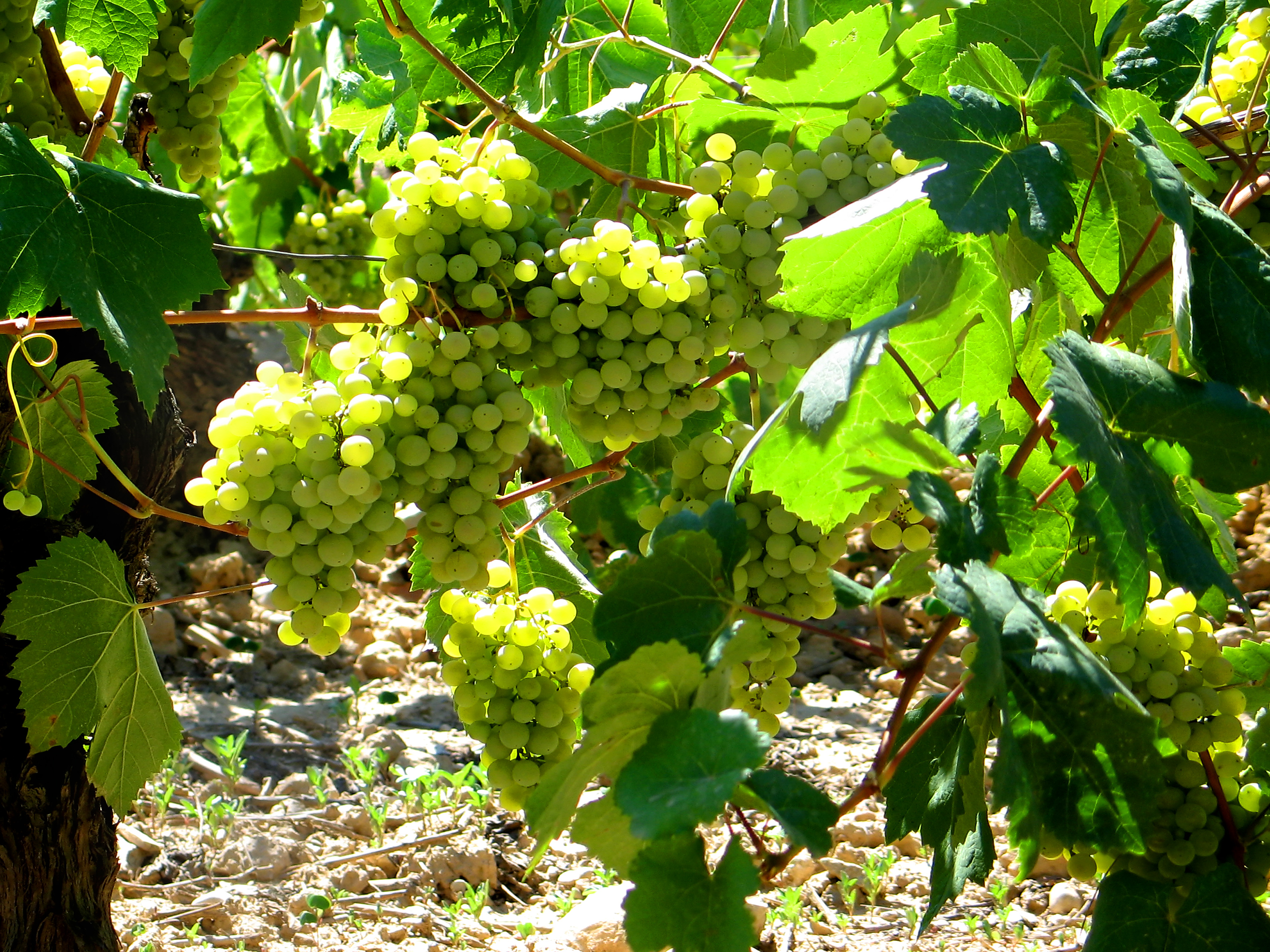 Parellada grapes used in the production of Sparkling Cava wine in Spain.